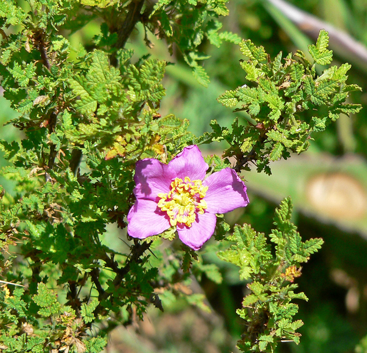 Photo of Rosa minutifolia at the Regional Parks Botanic Garden, Berkeley, California